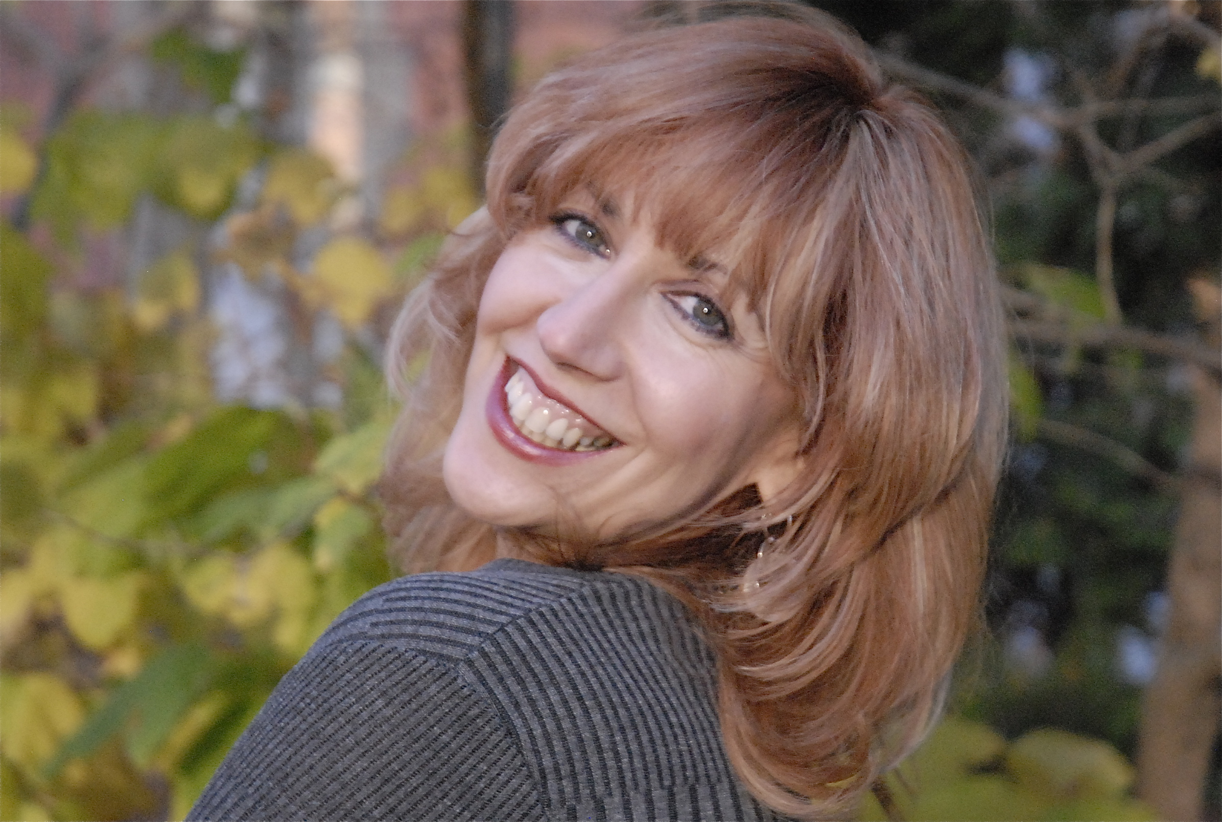 Photo of author and presenter, Gail Sidonie Sobat